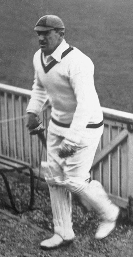 circa 1920: South African cricketer Aubrey Faulkner (1881 - 1930) returning to the pavilion.